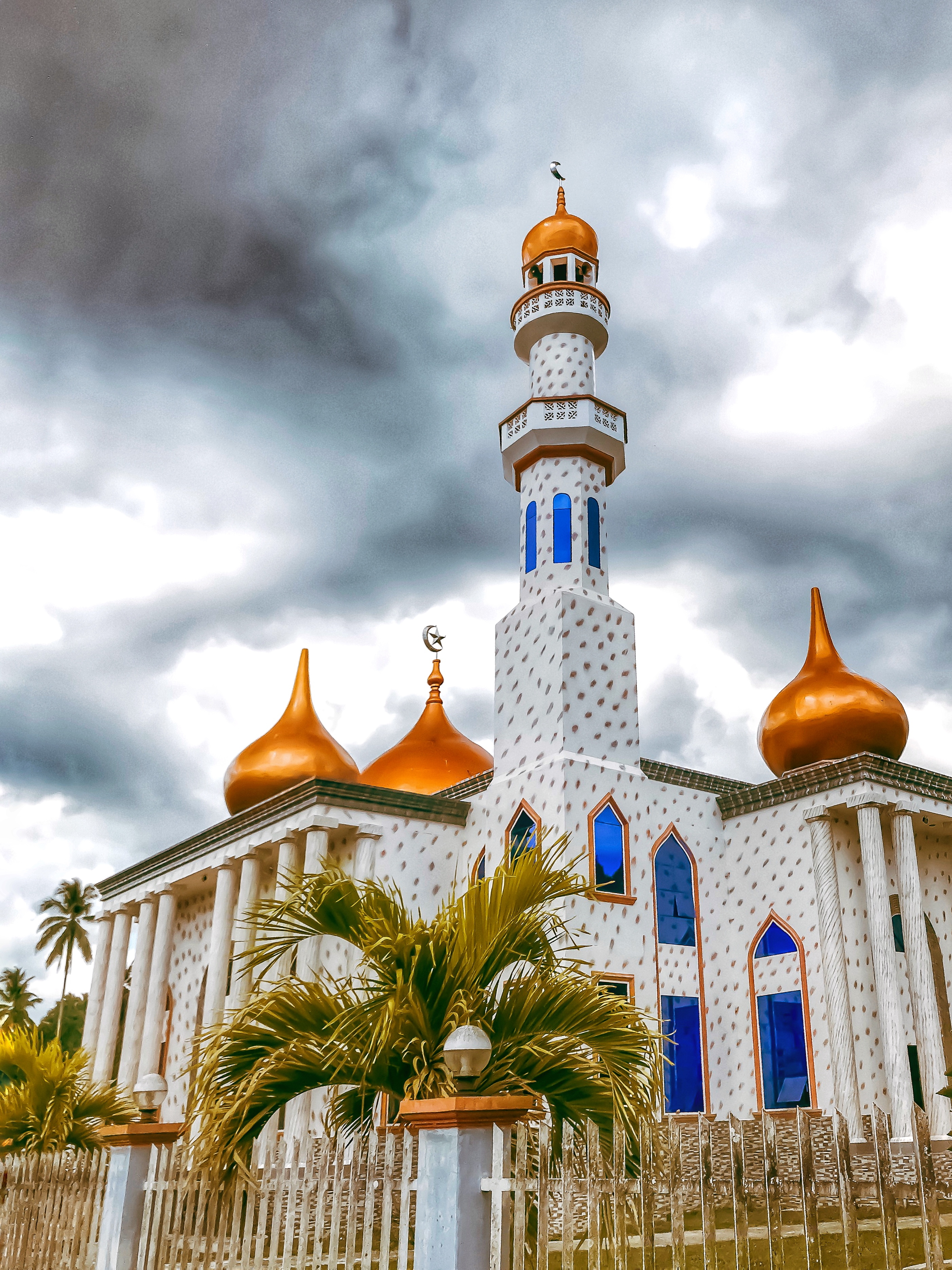 Used for religious practice of Muslims in Talipao Cebuano: Massive Mosque This photo has been taken in the country: Philippines